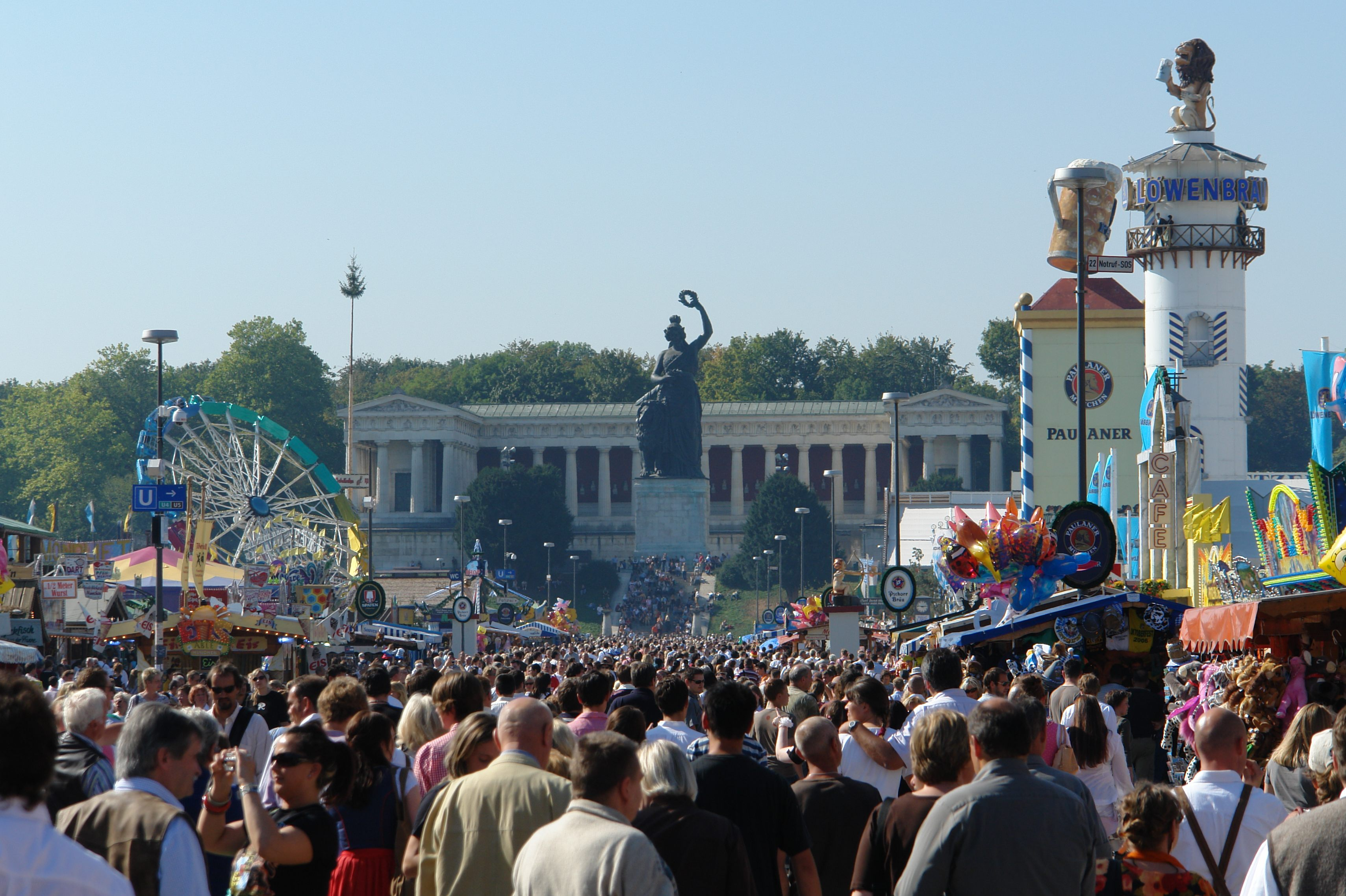 Bavaria statue overlooking the Oktoberfest.